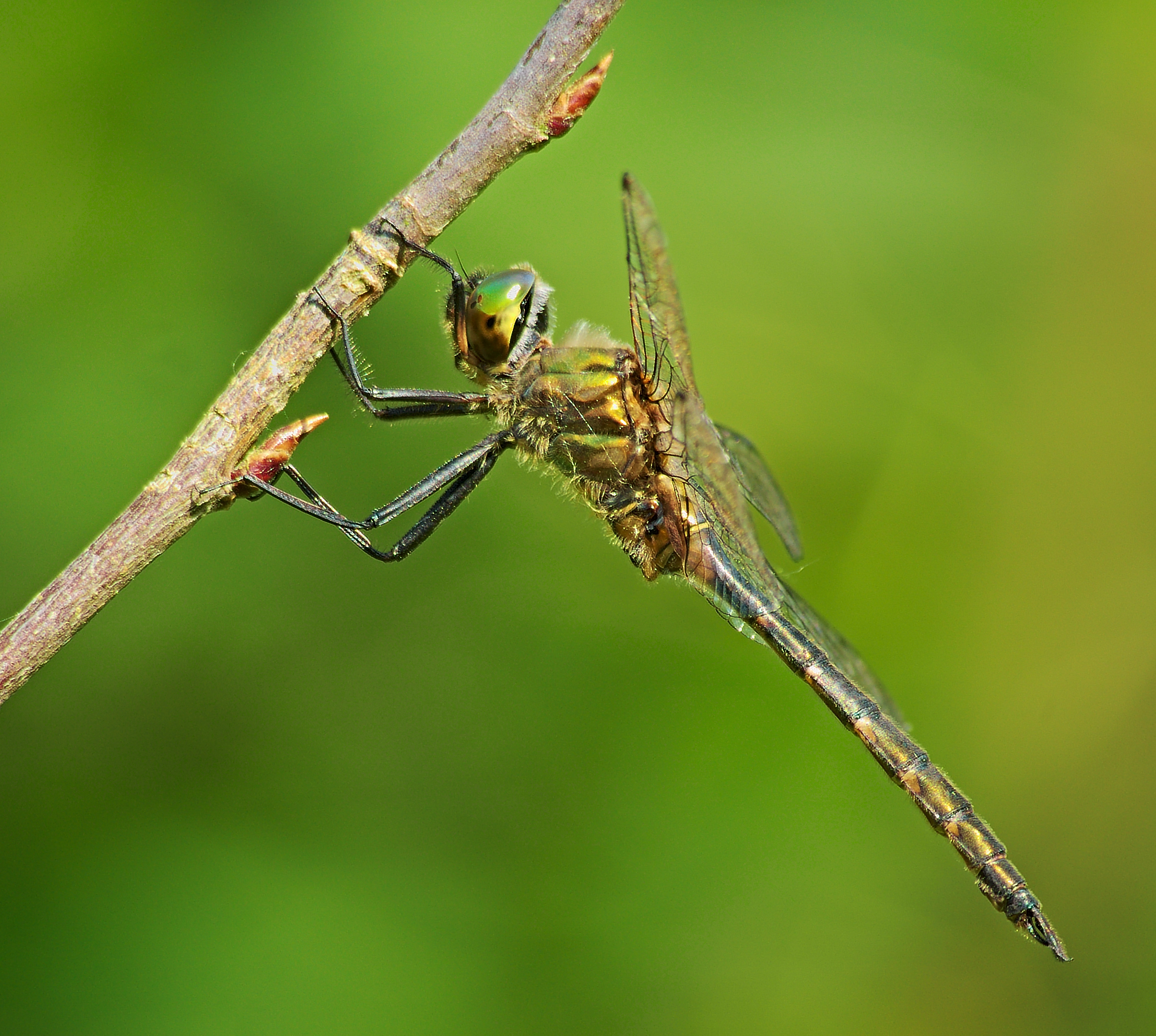 Yellow-spotted emerald - Somatochlora flavomaculata, male. Taken by the Godendorfer See in Godendorf, Mecklenburg-Western Pomerania, Germany.